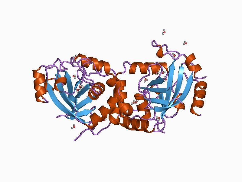 Cartoon representation of the molecular structure of protein registered with 1cmv code.